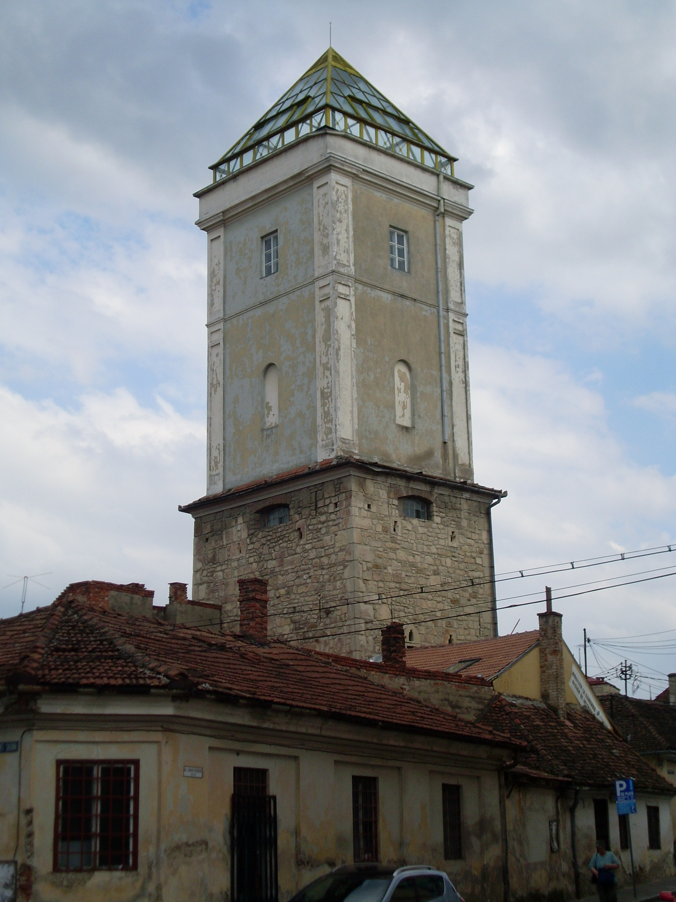 The XVth century Locksmiths' Tower in Cluj-Napoca (lower section preserved), Romania; later converted in the Firemen's watch-tower.